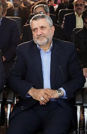 Solat Mortazavi(Mayor of Mashhad) in the Arbor Day celebration.